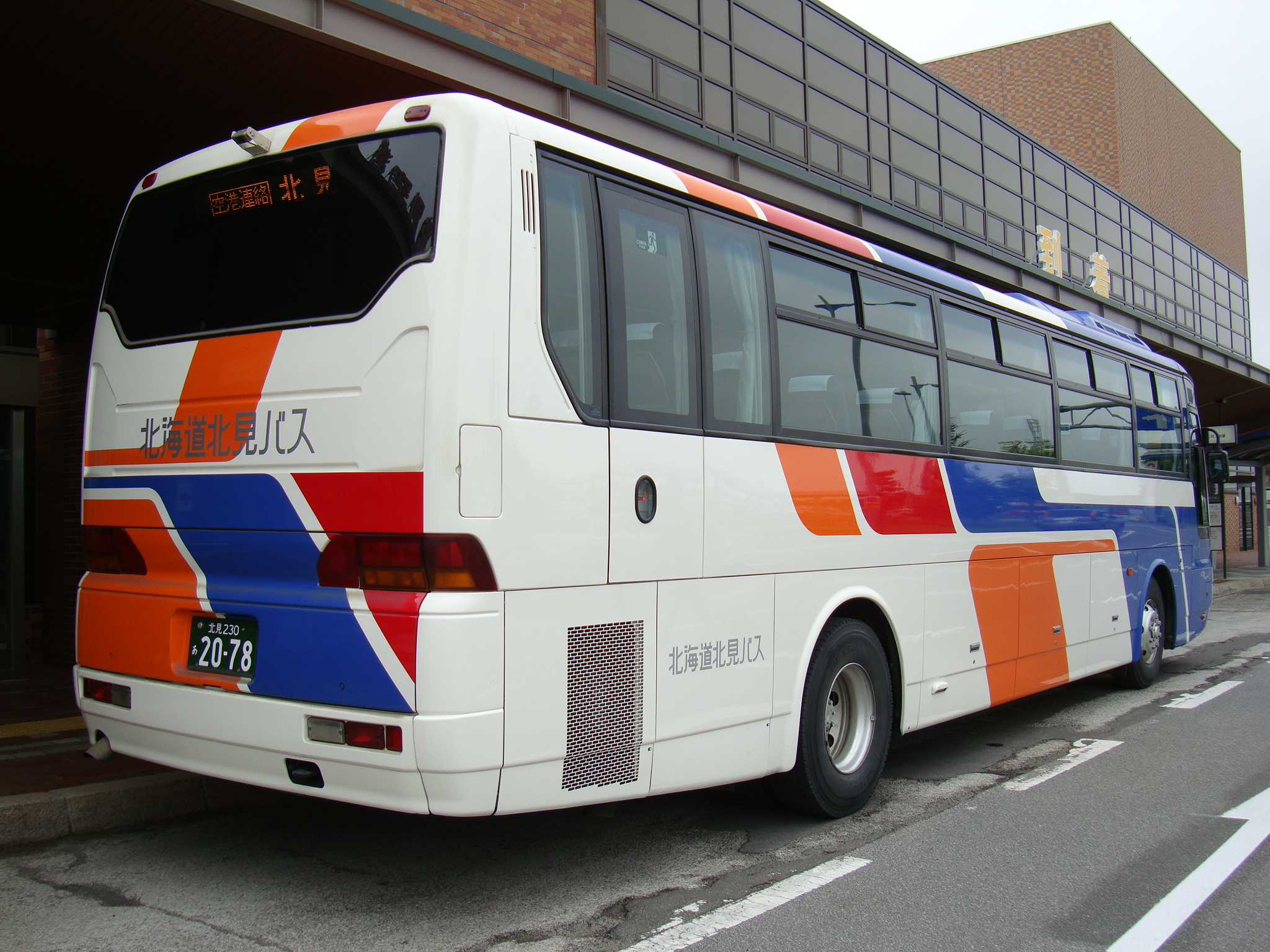 Memanbetsu Airport to Kitami